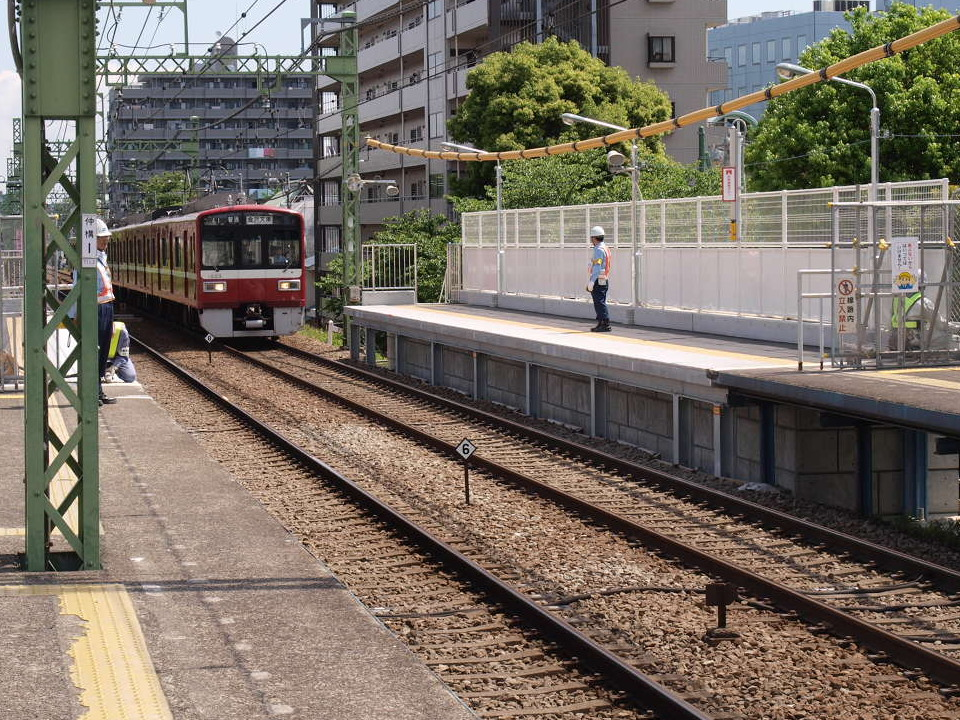 Nakakido station platforms under the process of extension